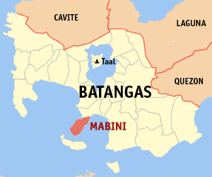 Map of Batangas showing the location of Mabini